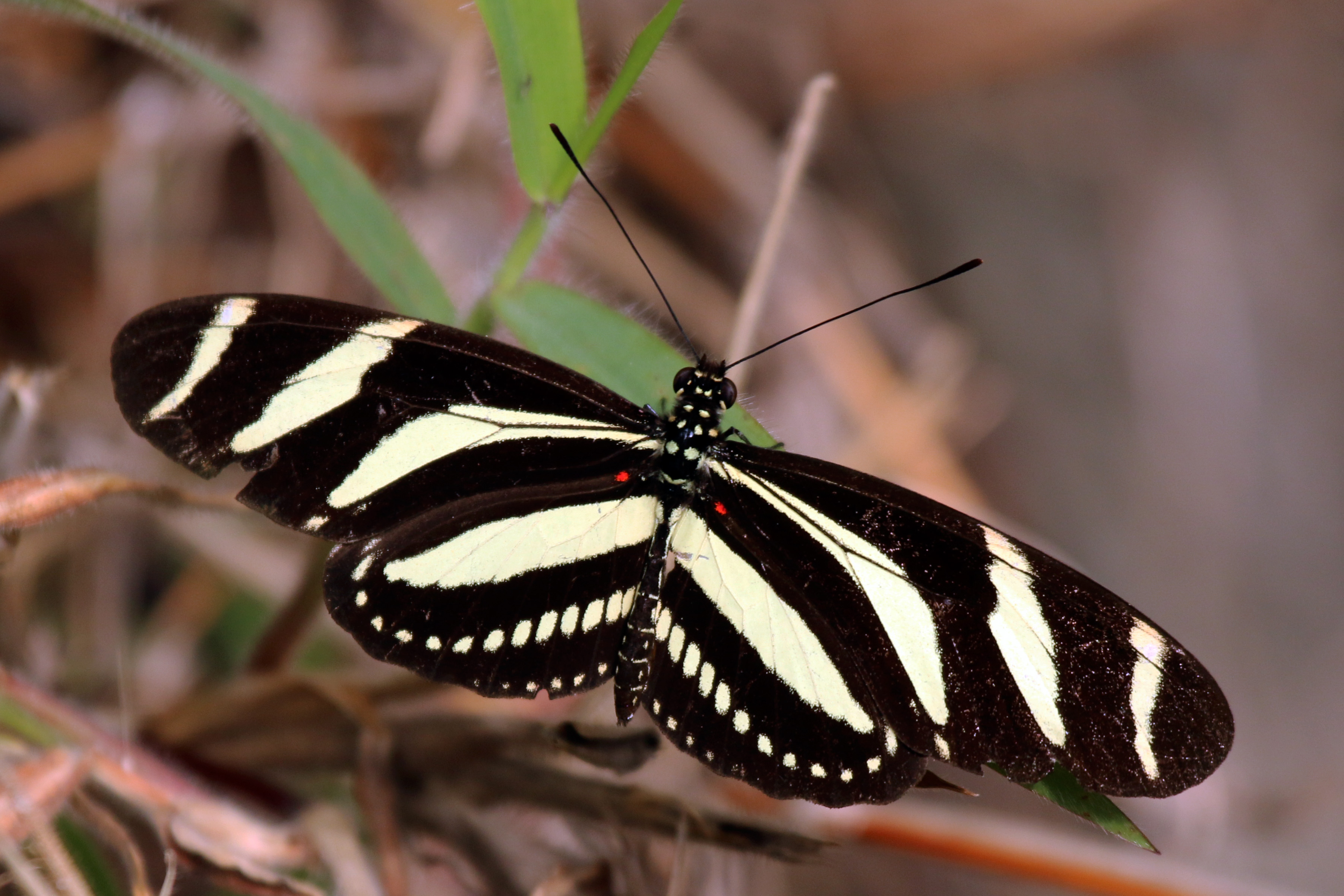 Zebra heliconian longwing butterfly (Heliconius charithonia simulator) in Jamaica